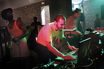 piratedub picture